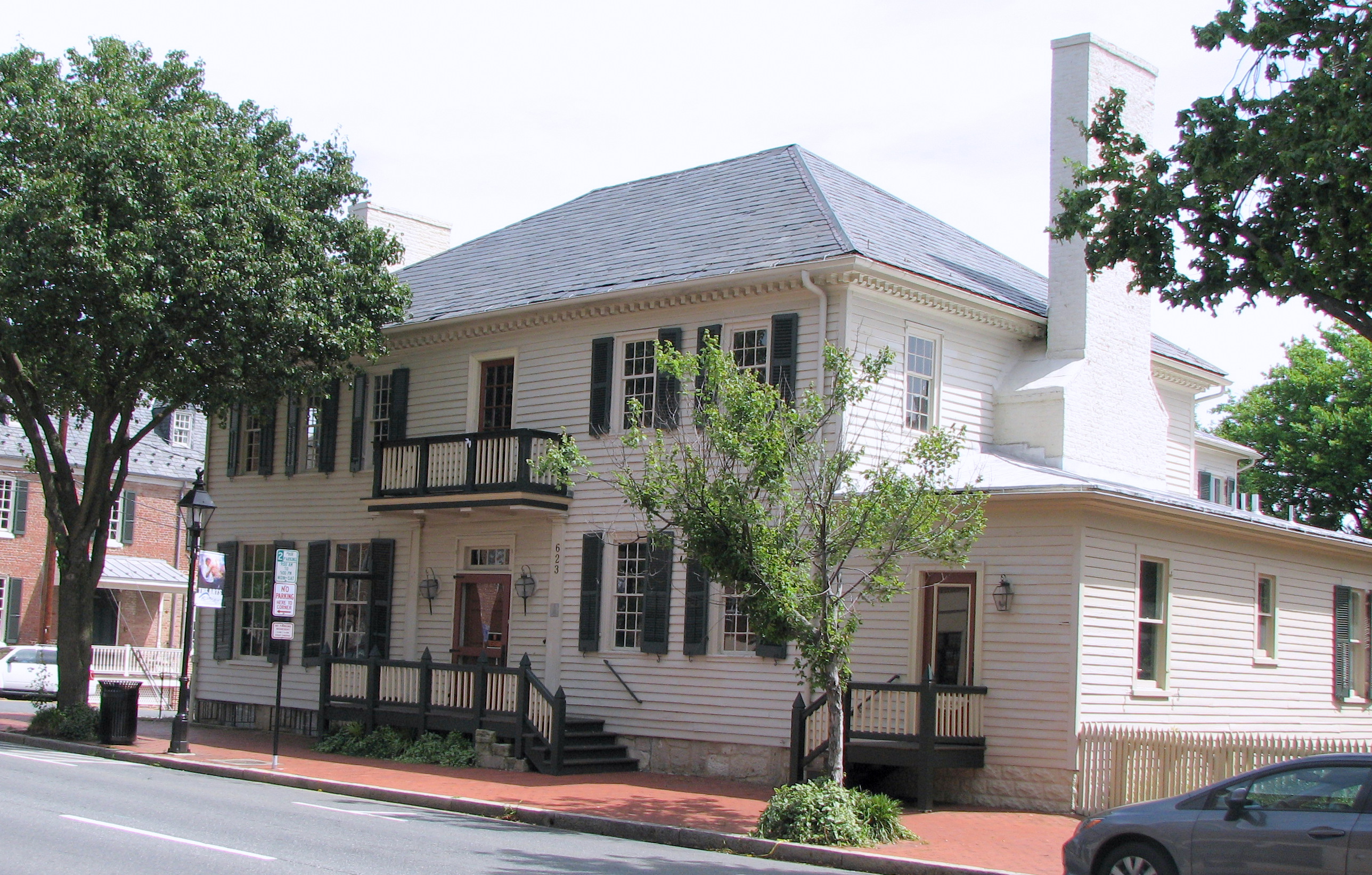 Built in 1771, The Chimneys in Fredericksburg, Virginia is listed on the National Register of Historic Places